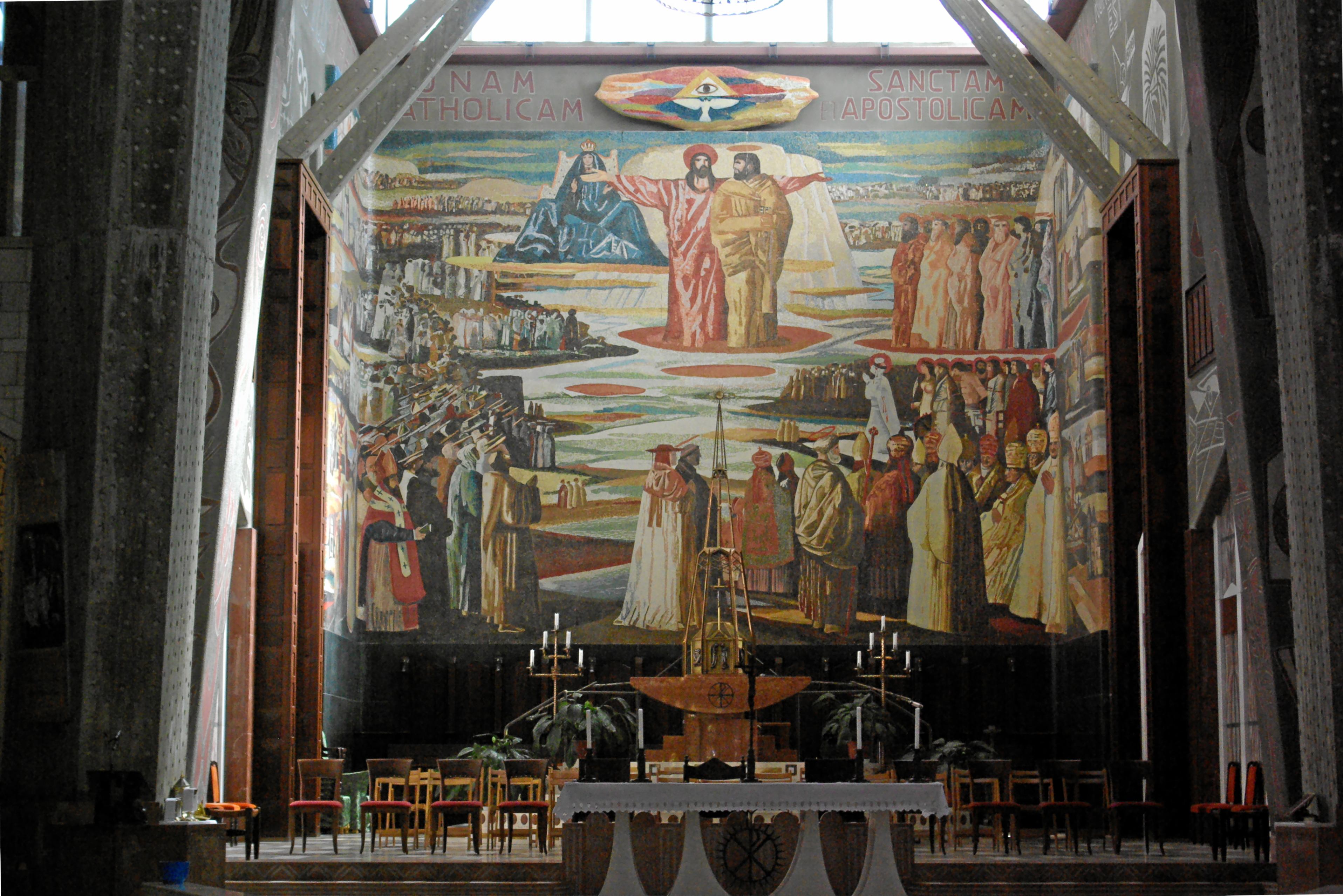 Church of the Annunciation, Nazareth, Israel